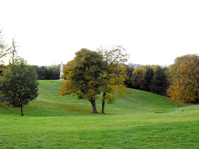 Red House Park, Great Barr. The obelisk commemorating Princess Charlotte Augusta of Wales, restored in 2009, can be seen in the background.